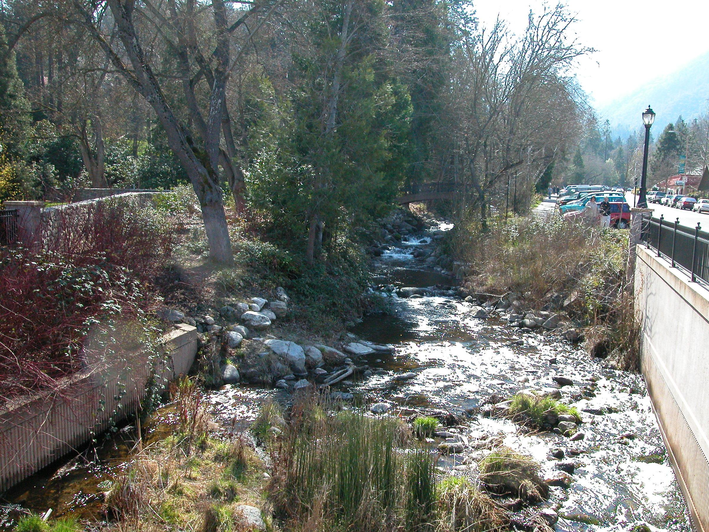 Ashland Creek and Winburn Way in Lithia Park This photograph was taken by me on March 5, 2005.